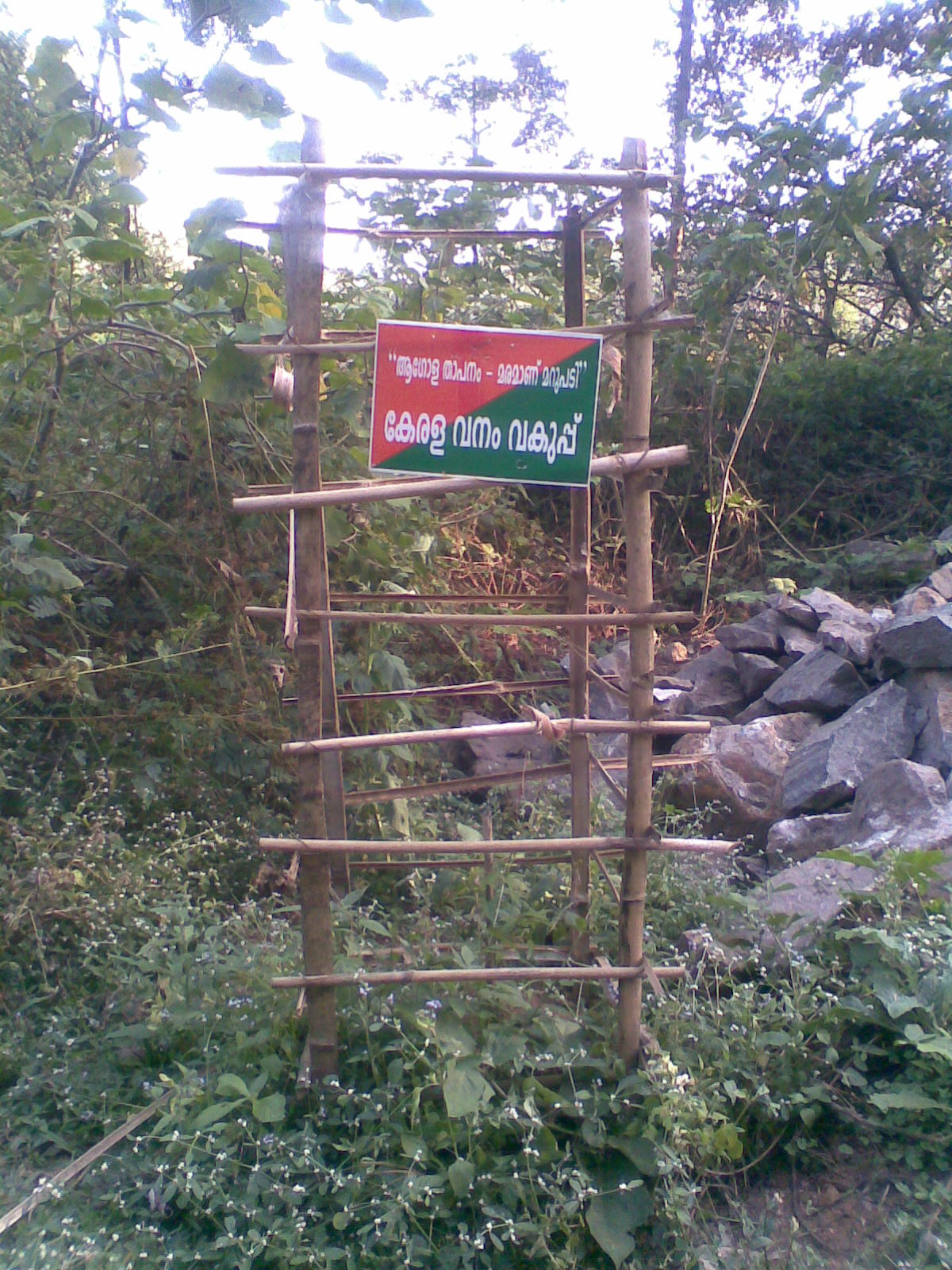 One of the trees (inside the fence) that Kerala Forest Department has planted across Kerala as part of spreading awareness about global warming.